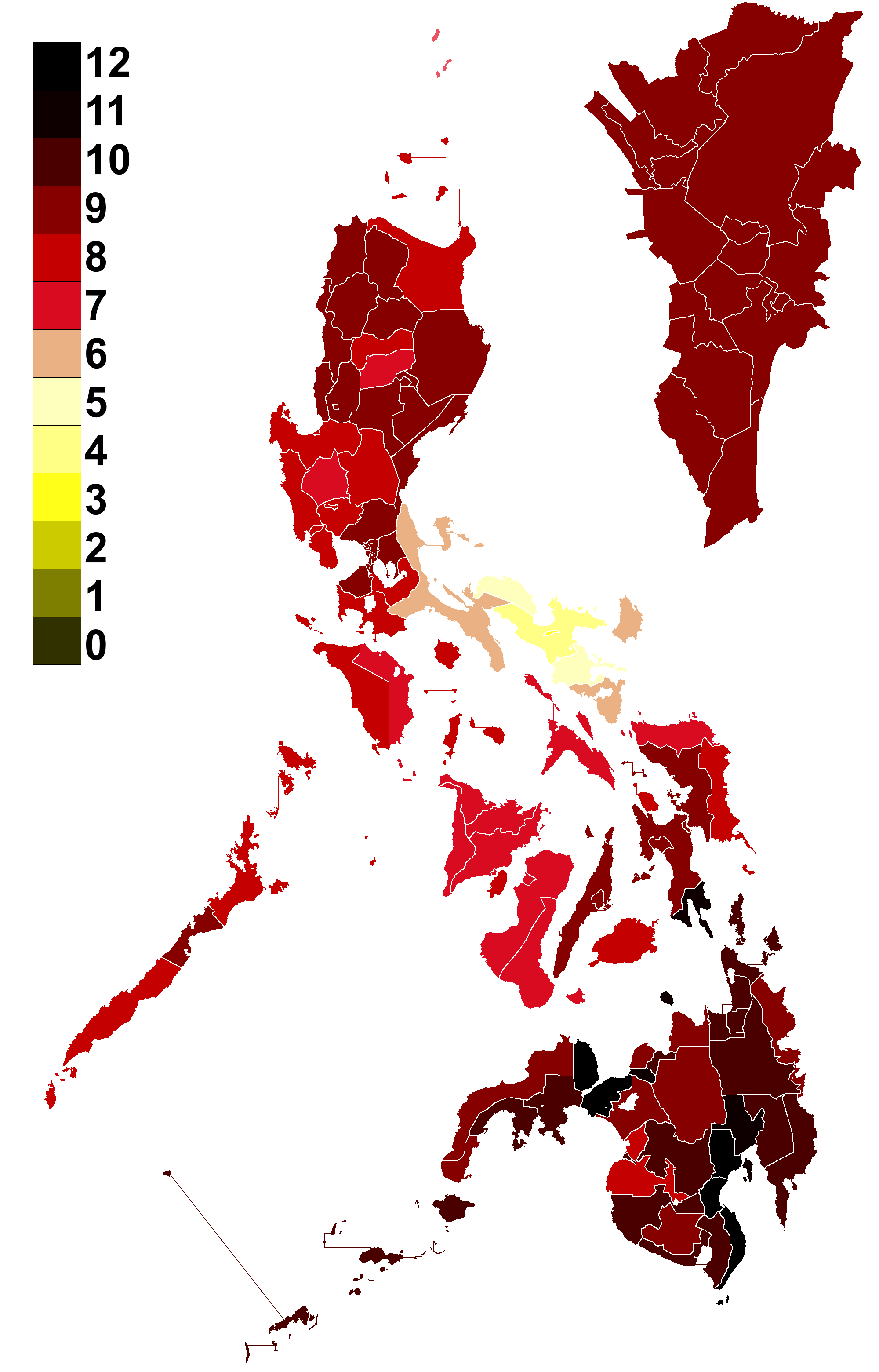 A map showing how many candidates of Hugpong ng Pagbabago won per province and independent city